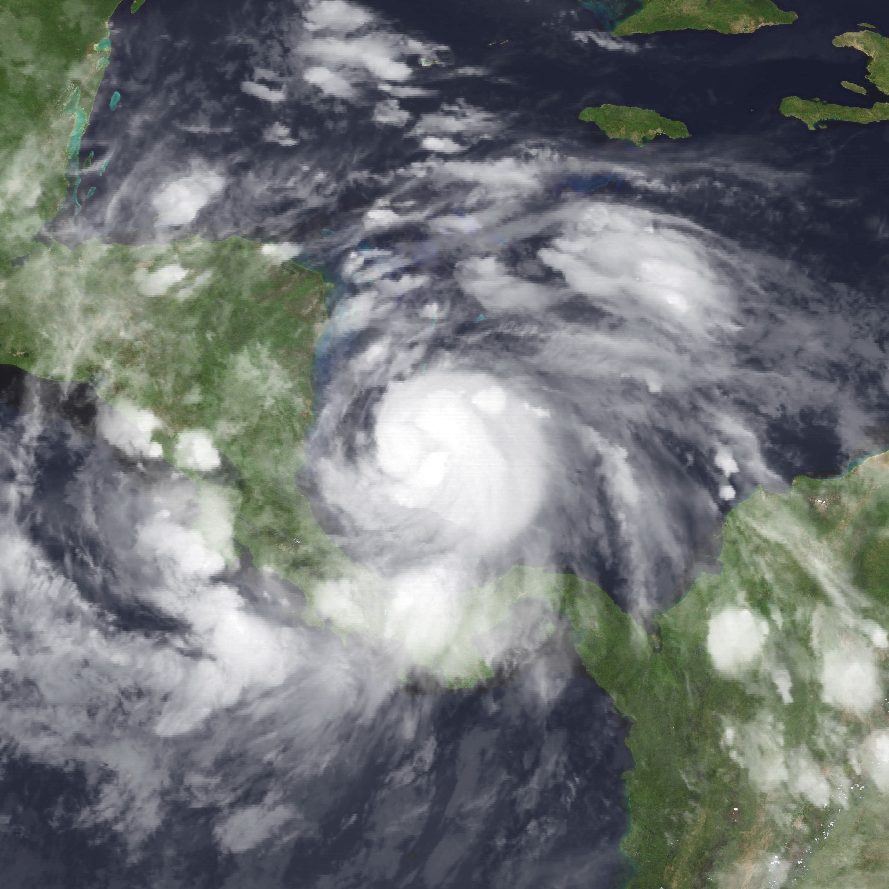 Hurricane Cesar at peak intensity in the southwestern Caribbean Sea on July 28, 1996